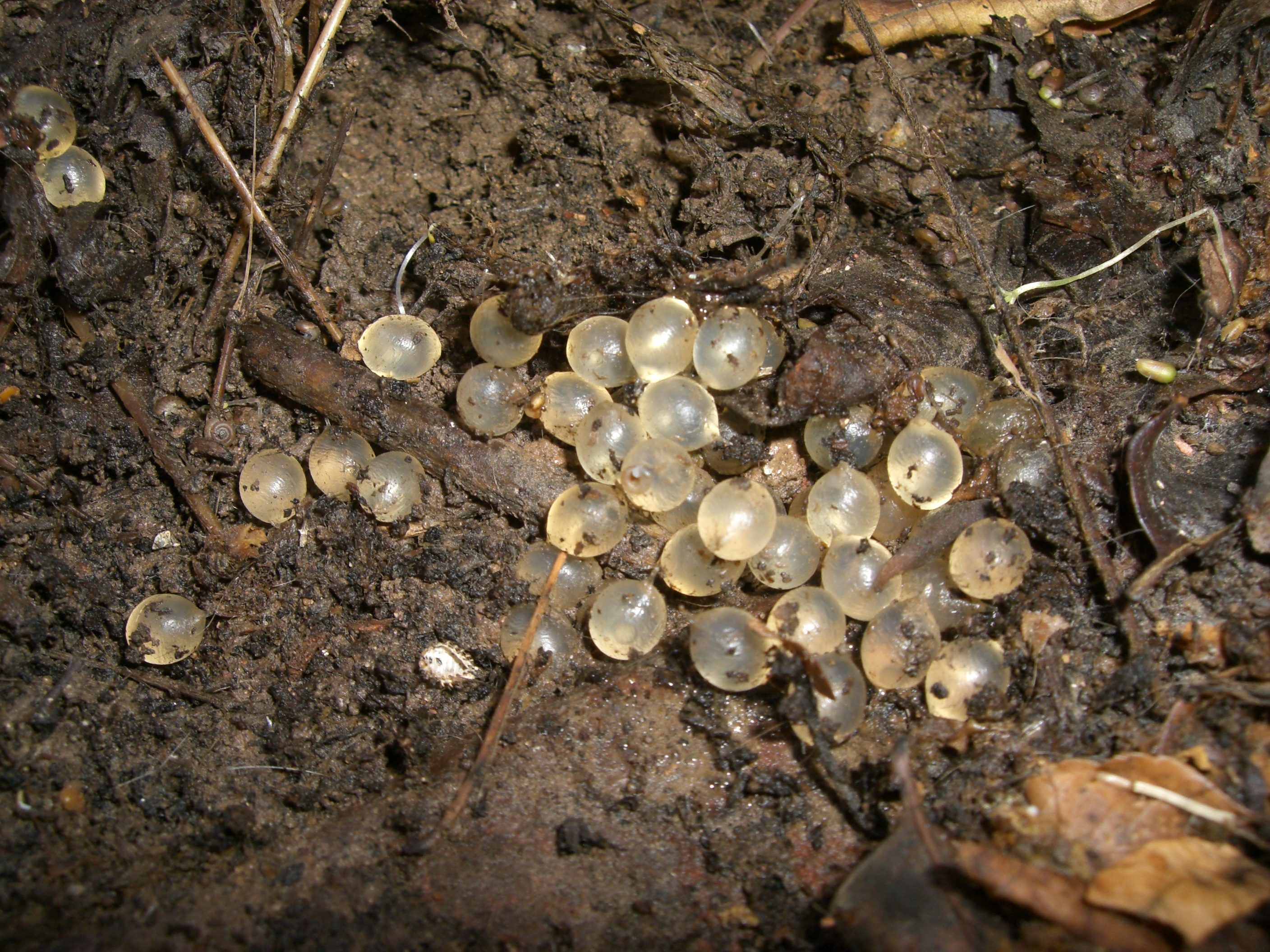 Yellow slug (Limax flavus) eggs. Very small (around 1 mm) shells around (5 shells in the upper part of the image) is Punctum pygmaeum.